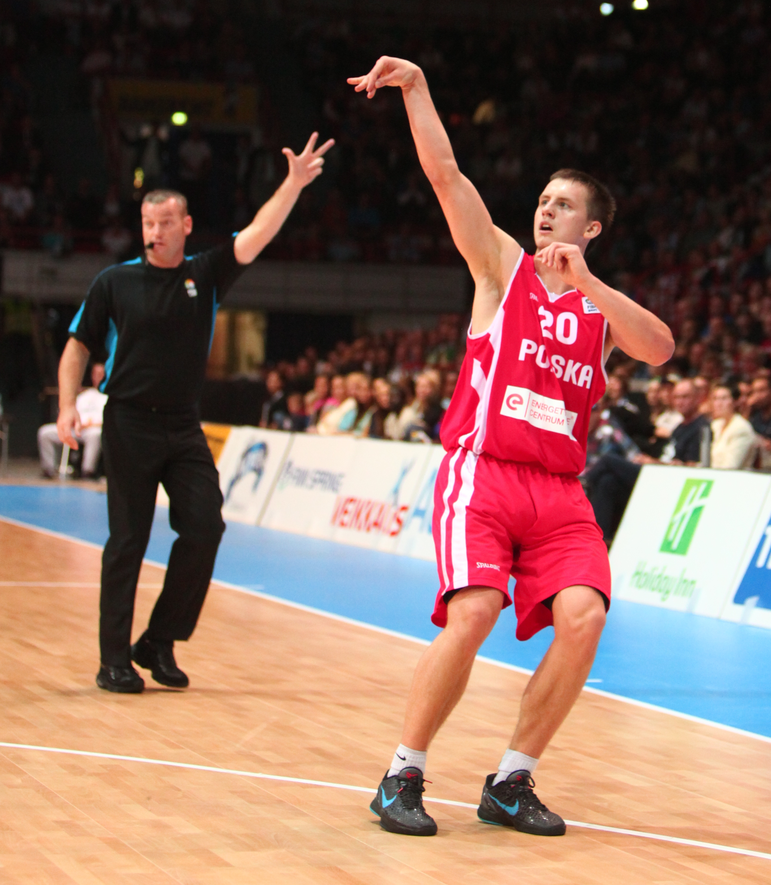 Mateusz Ponitka after shooting 3 points.